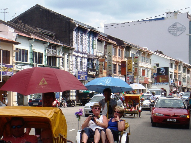 Lebuh Chulia (Chulia street), Georgetown (Malaysia).